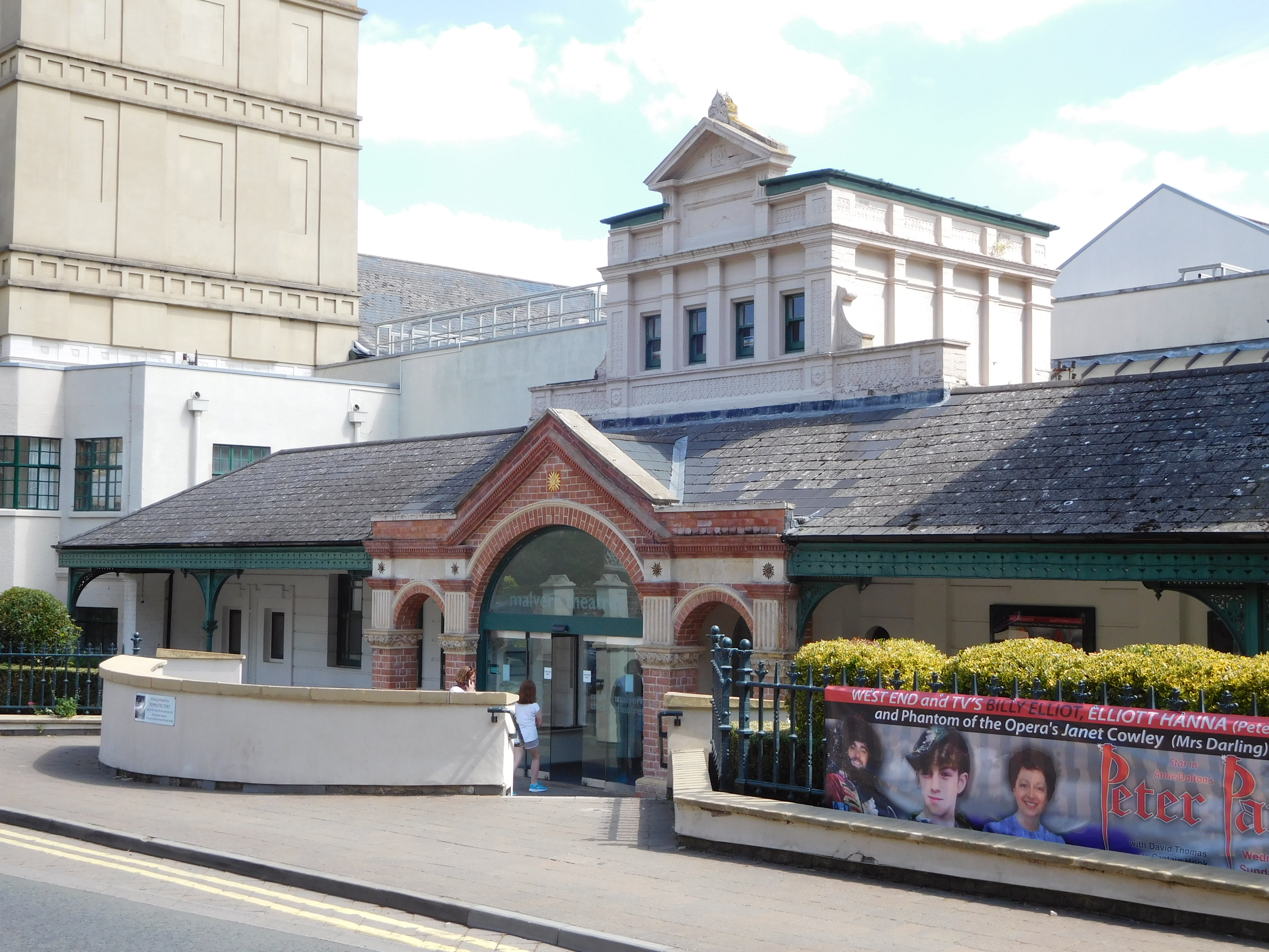 Malvern - Grange Road, Malvern Theatres